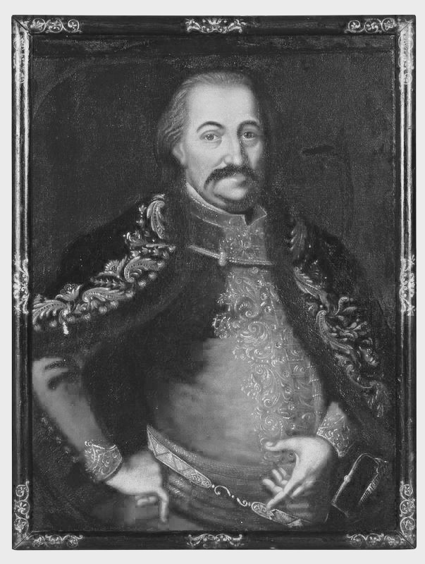 уље на платну, прва половина XIX века, приватна колекција.